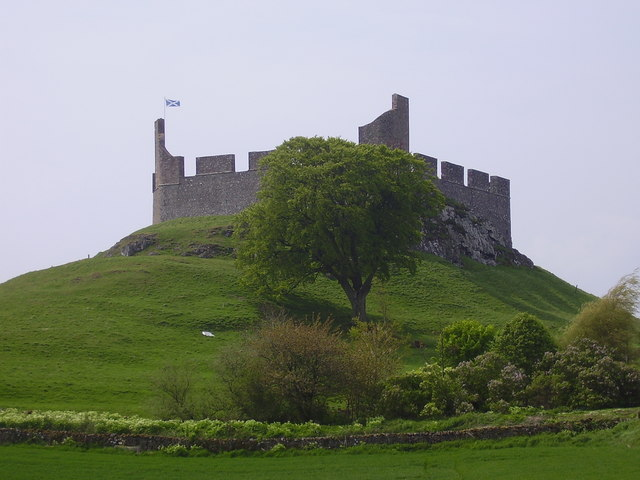 Hume Castle This mighty fortress is the spiritual of Home (Hume) Clan, once a powerful Borders family.